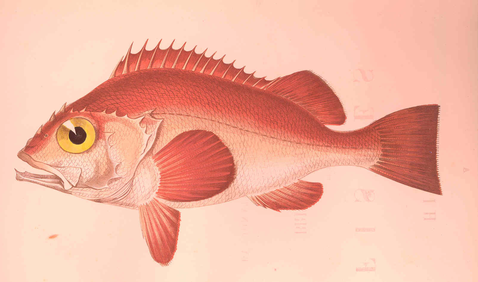 Bergylt Norway Haddock Perca marina Sebastes Norvegicus Holocentre Norvegion Serranus Norvegieus Scorpaena Norvegica Subject: Sebastes marinas Tag: Fish